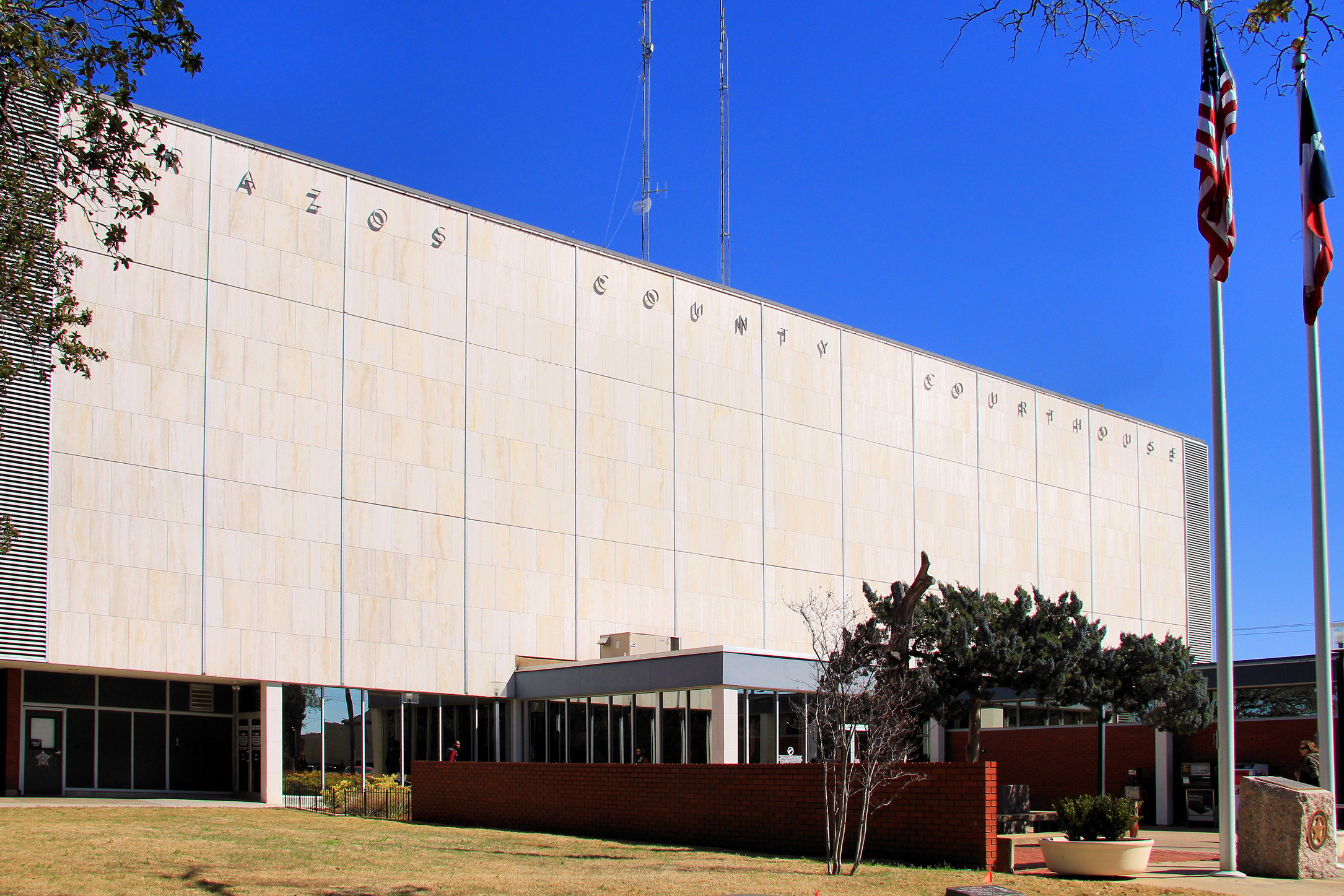 The Brazos County Courthouse located in Bryan, Texas, United States.